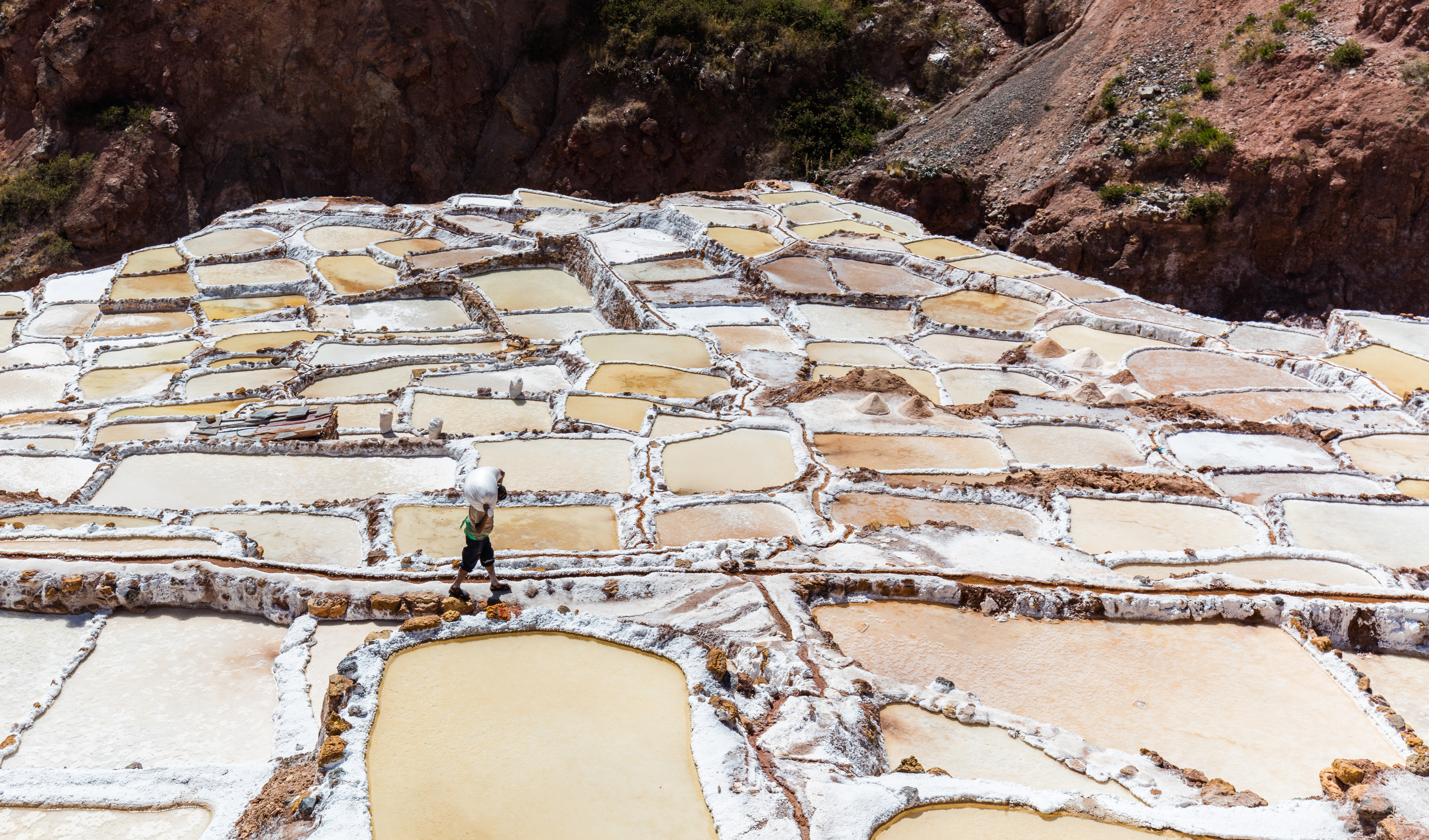 Salineras (salt evaporation ponds) of Maras, Maras, Peru